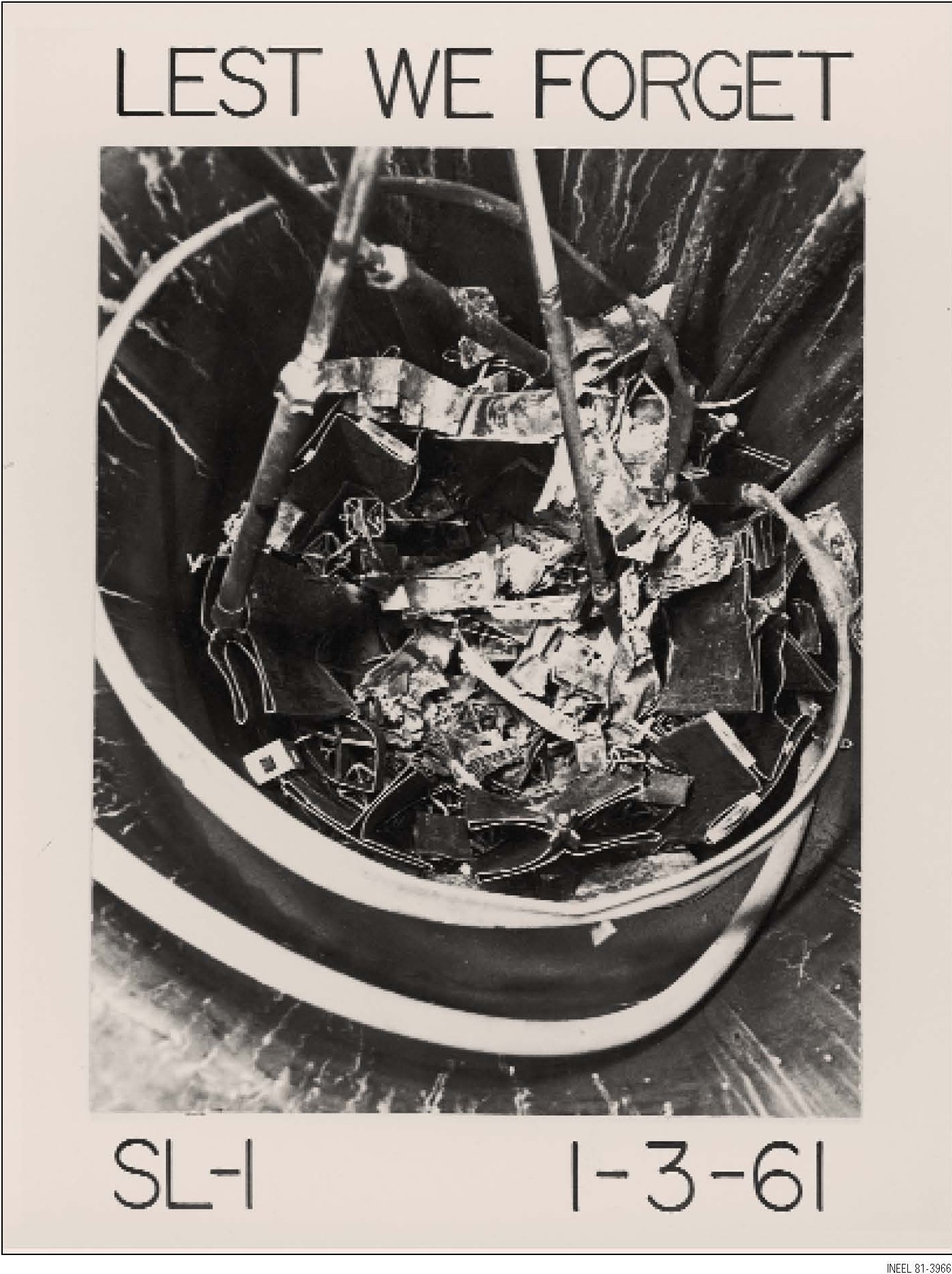 1981: This is a retrospective look at the destruction found inside the SL-1 reactor core (In Idaho falls, ID)after it was damaged by a nuclear prompt-critical excursion on January 3, 1961 which killed three men. The extensive damage reminds people of the vast energies released when a nuclear reactor is designed and operated improperly.